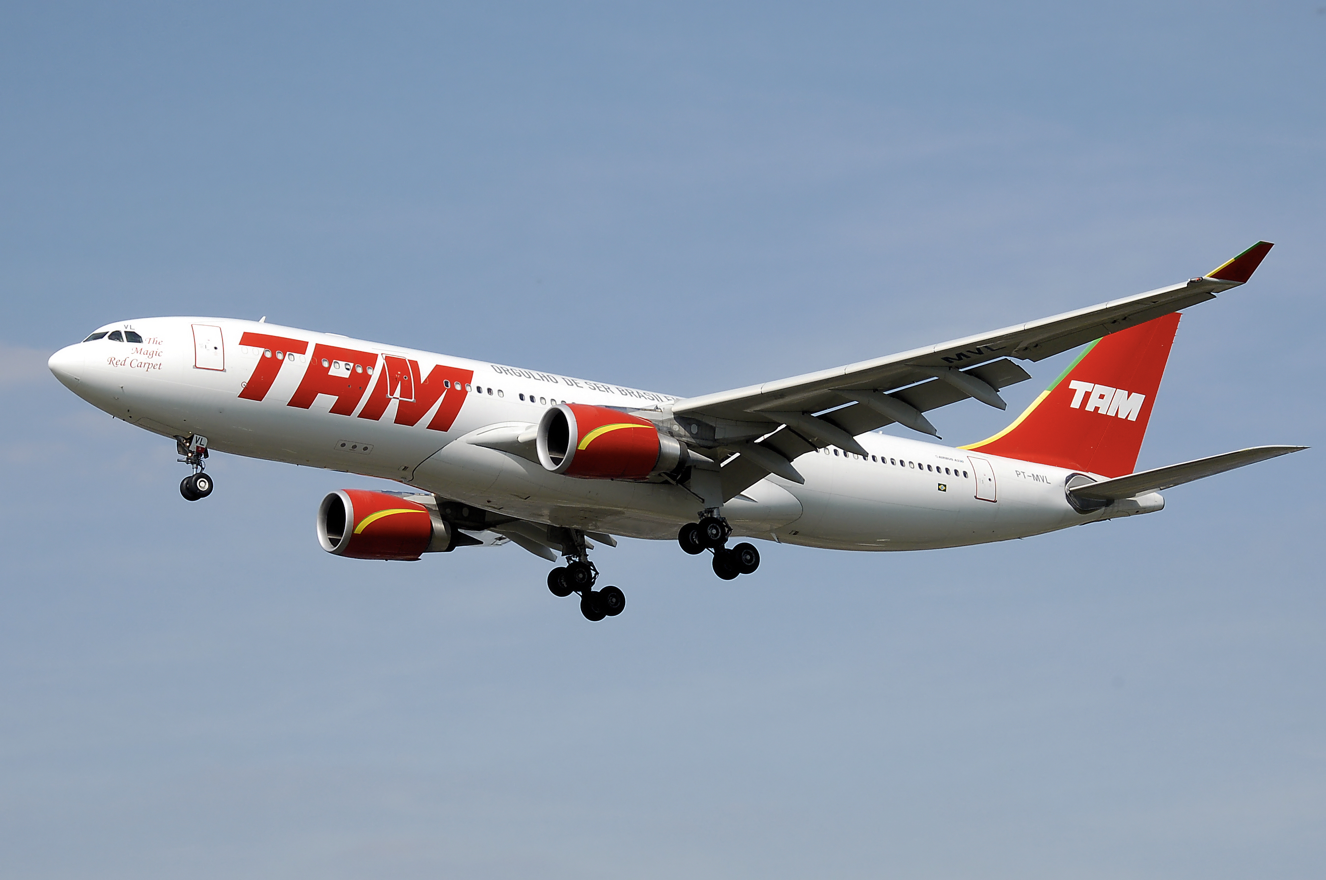 TAM Airbus A330-200 (PT-MVL) landing at London Heathrow Airport.